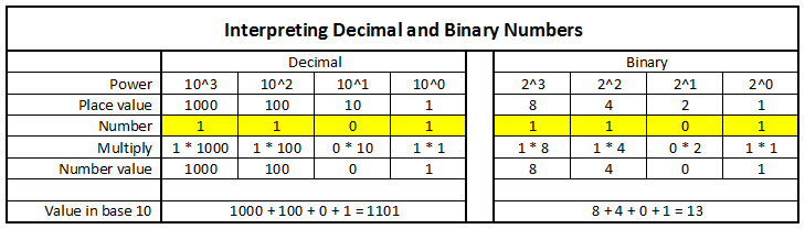 A comparison of the place interpretations of decimal vs. binary numbers.